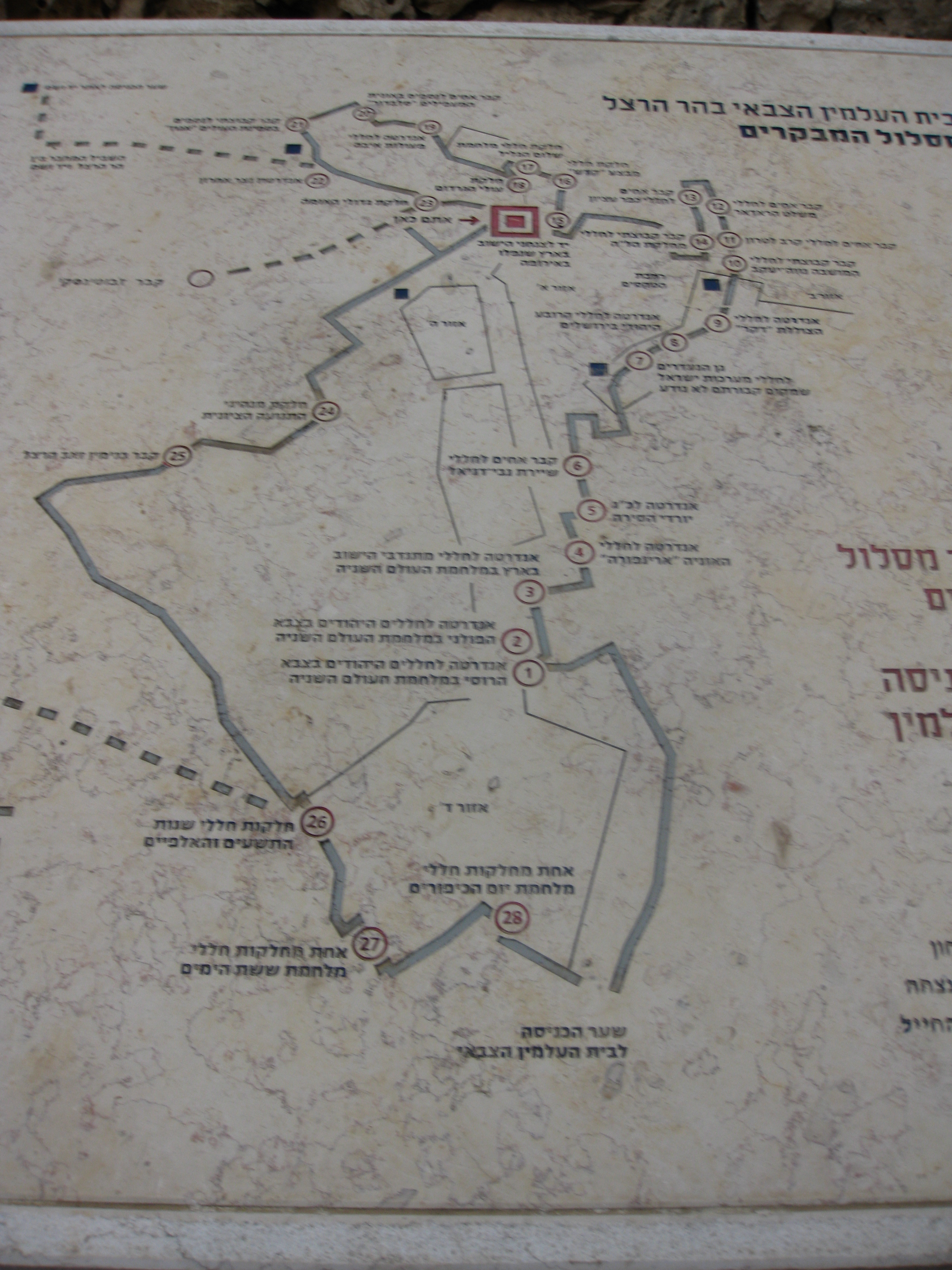 Maps of Mount Herzl